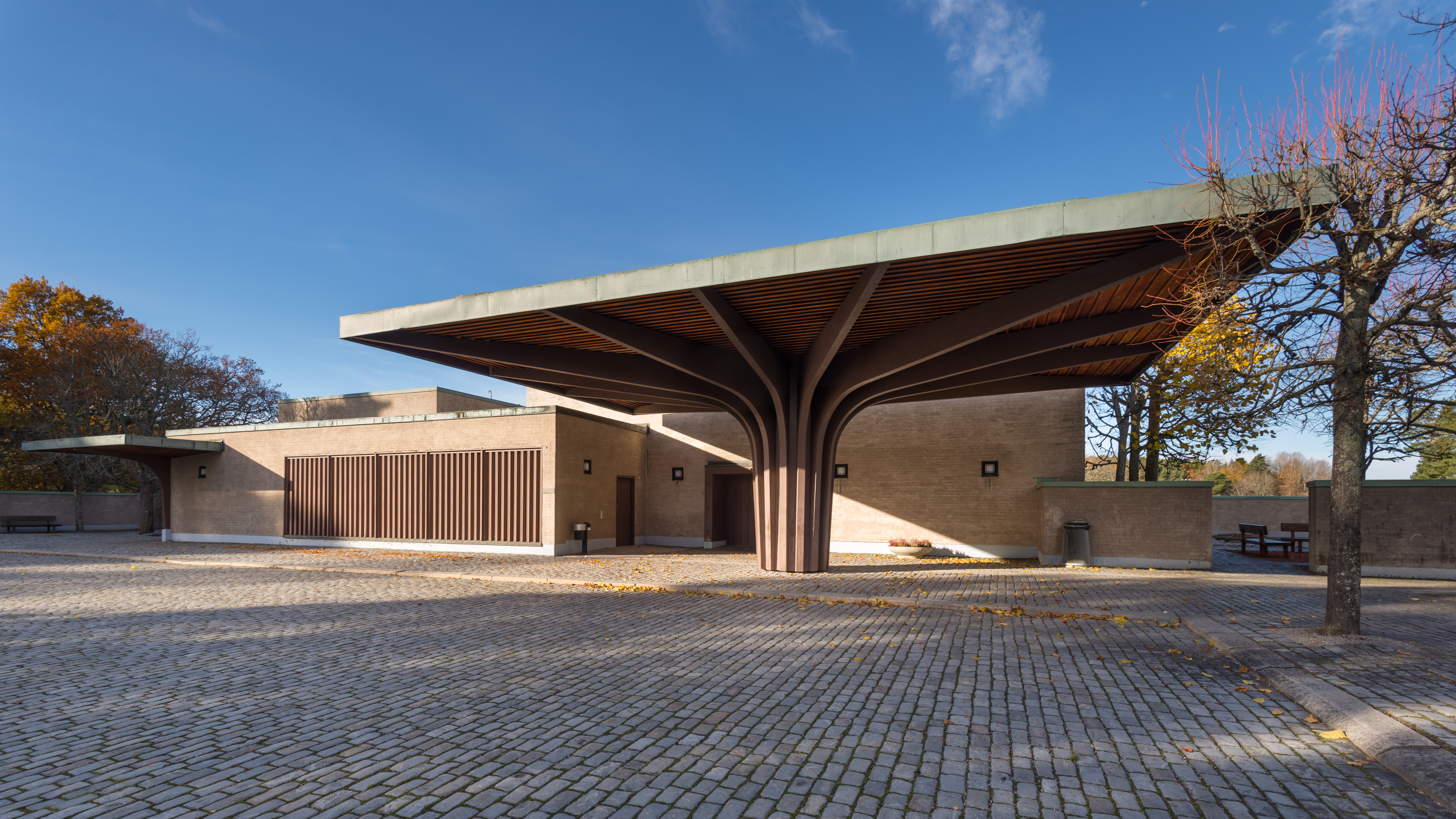 Råcksta chapell, Stockholm. Architects Gunnar Martinsson and Klas Fåhraeus. Built in the early 1960s